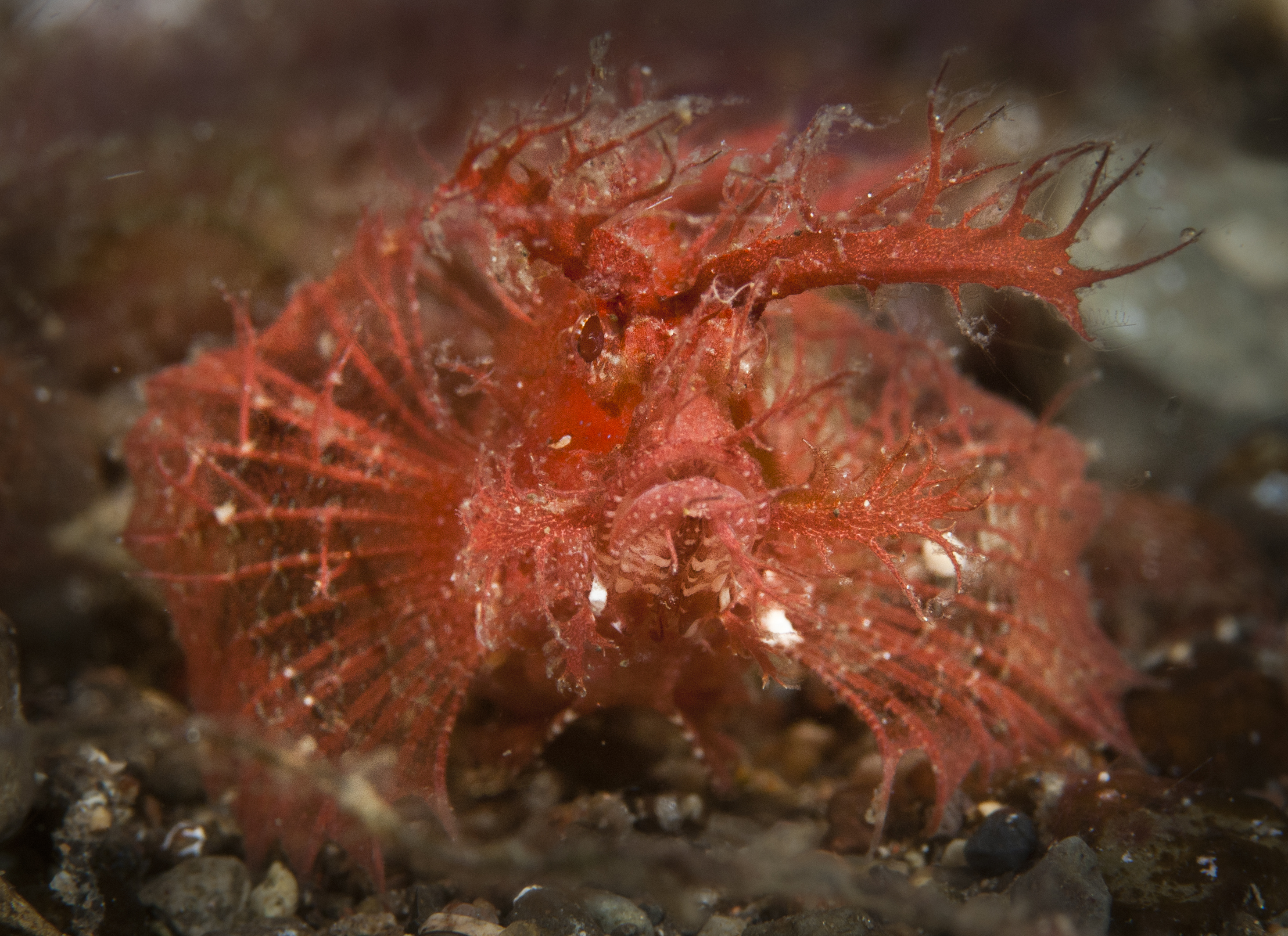 Ambon scorpionfish observed in the area of Alor Island, Indonesia